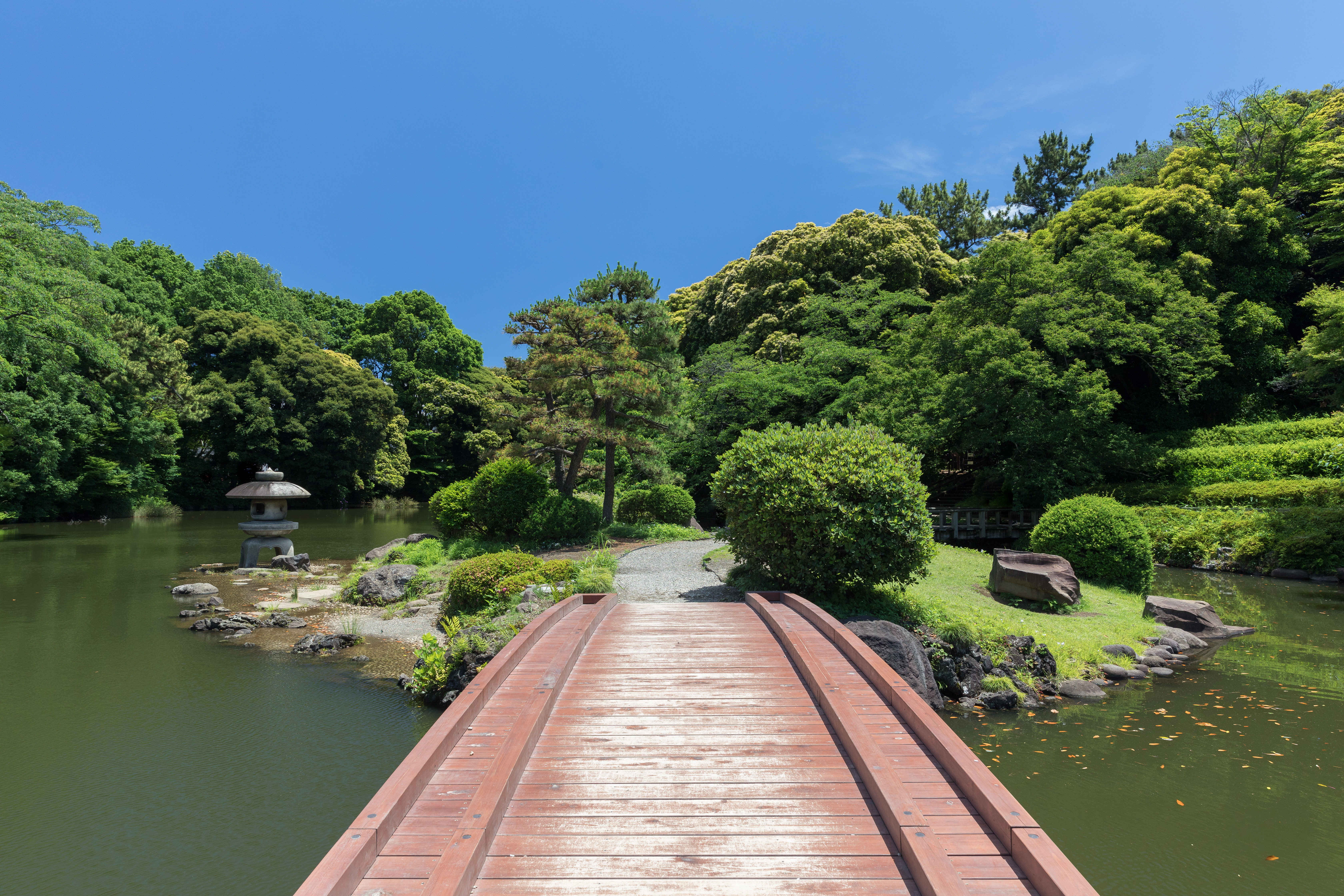 Wooden footbridge in Shinjuku Gyoen National Garden, Tokyo, Japan, a sunny afternoon of June with blue sky